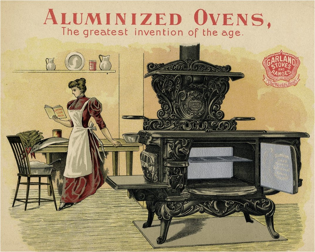 Garland stove advertisement